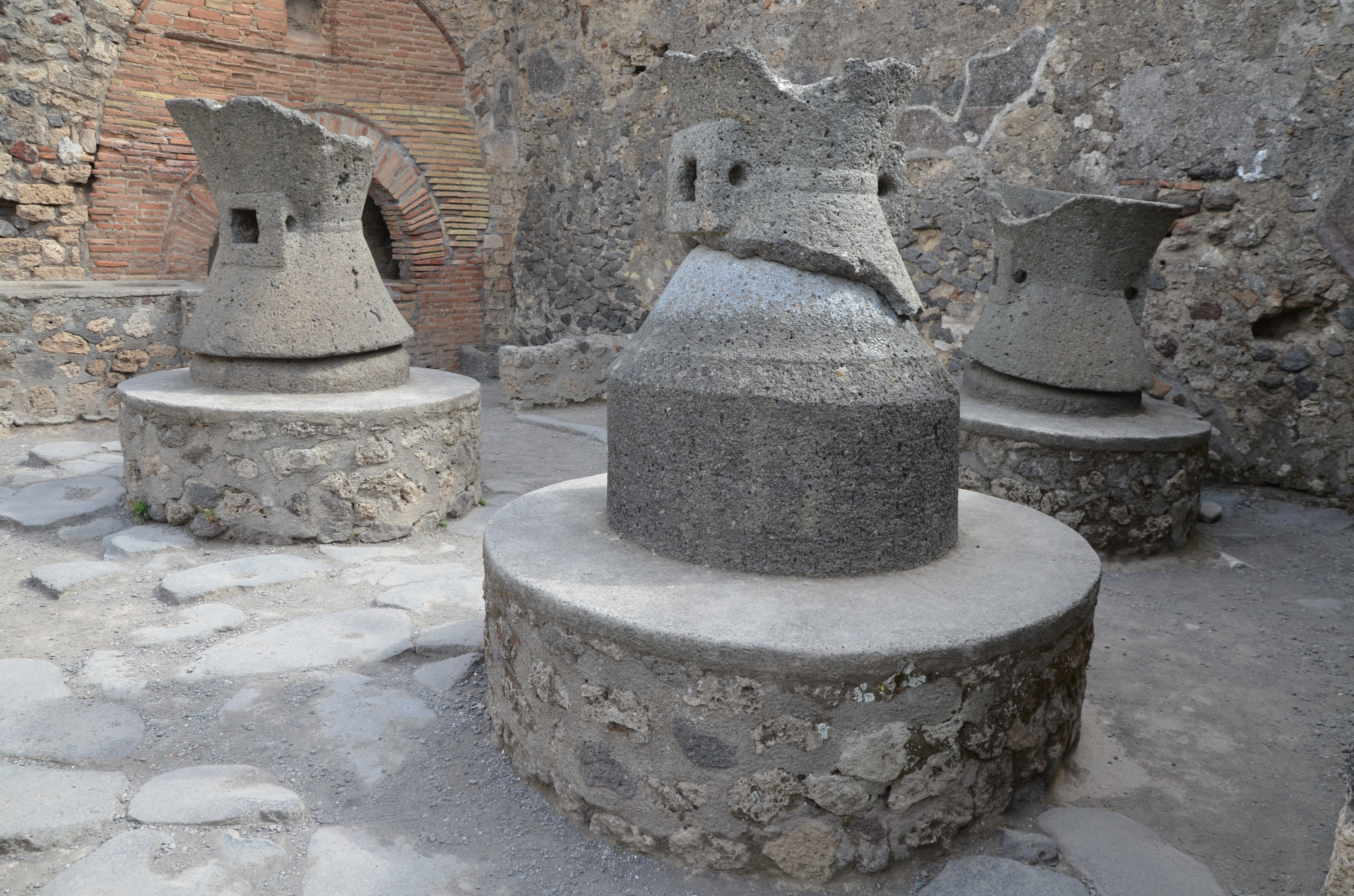 Bakery mills for grinding grain (catullus) from a pistrinum (bakery), Pompeii